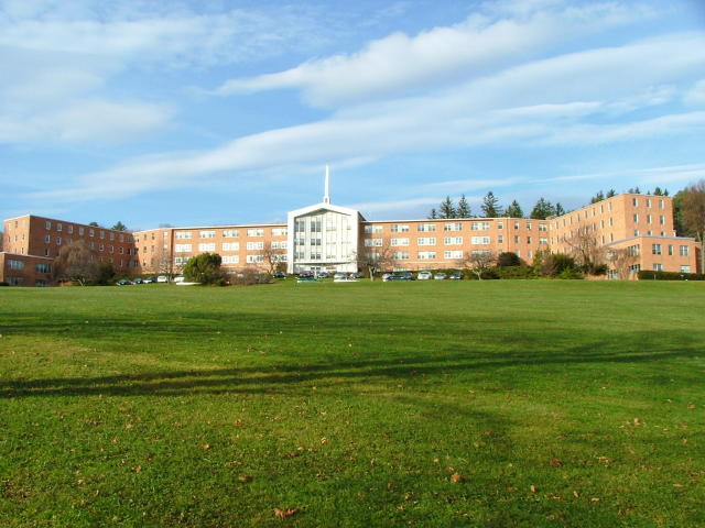 Photo taken by Richard Gueler, Nov. 27 2004. All rights released.